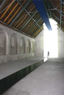 art installation by Bruno Kurz 5